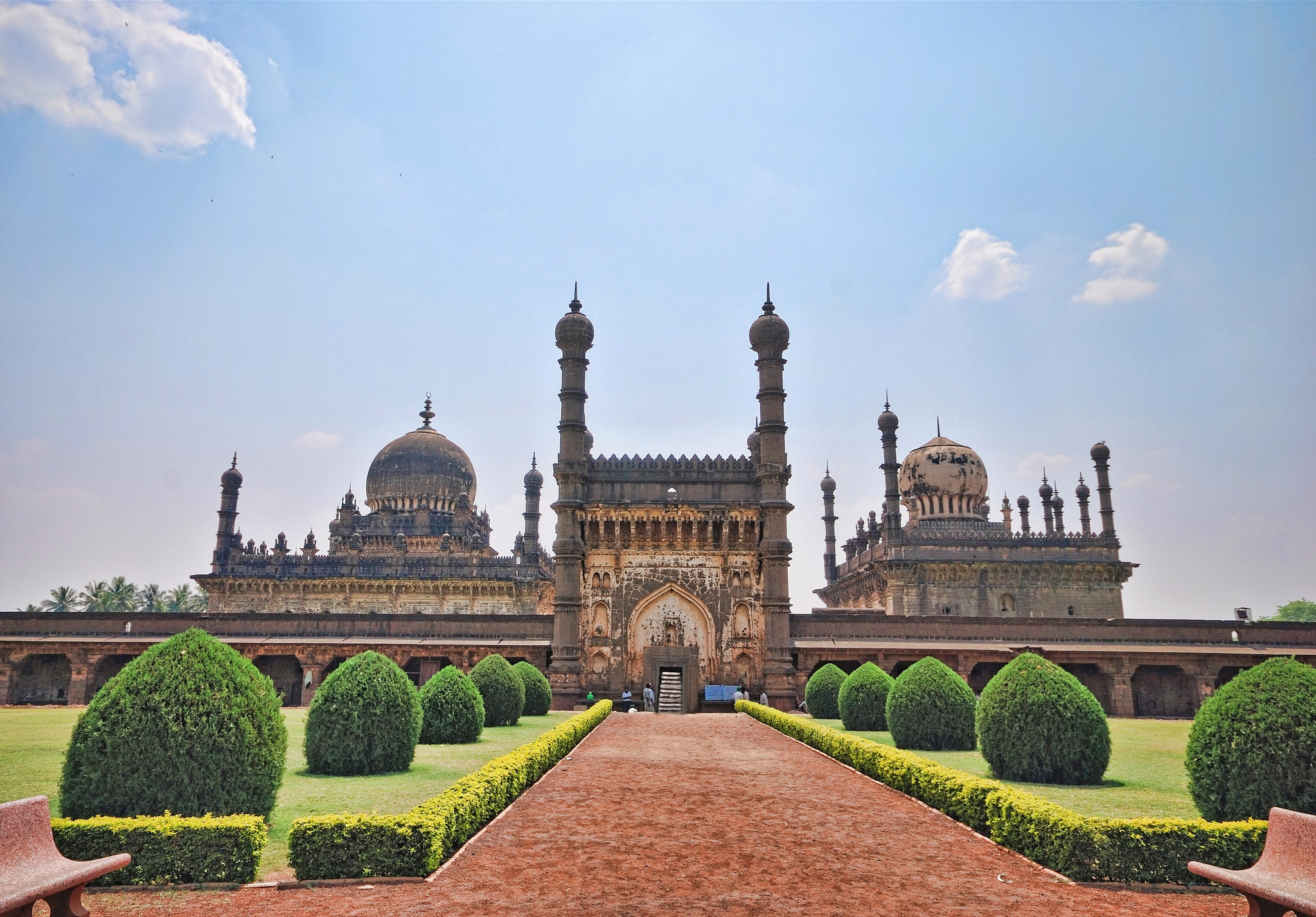 The Ibrahim-Rauza, built by Ibrahim 'Adil Shah II (1580-1627), consists of his tomb and mosque within a square compound, both rising face to face from a common raised terrace, with a tank and fountain between them. The mosque has a rectangular prayer-chamber, with a facade of five arches, shaded by the chhajja and a slender minaret at each corner. Enclosed within a square fenestration rises the bulbous dome with a row of tall petals at its base. The square tomb with double aisles around it, the inner one pillared, has similar features but is finer in proportions. Two narrow arches, next to the ones at each end, break up its facade. On the interior, each wall has three arches, all panelled and embellished with floral, arabesque or inscriptional traceries. The tomb-chamber has a low curved ceiling made of joggled masonry, with empty space between it and the dome.